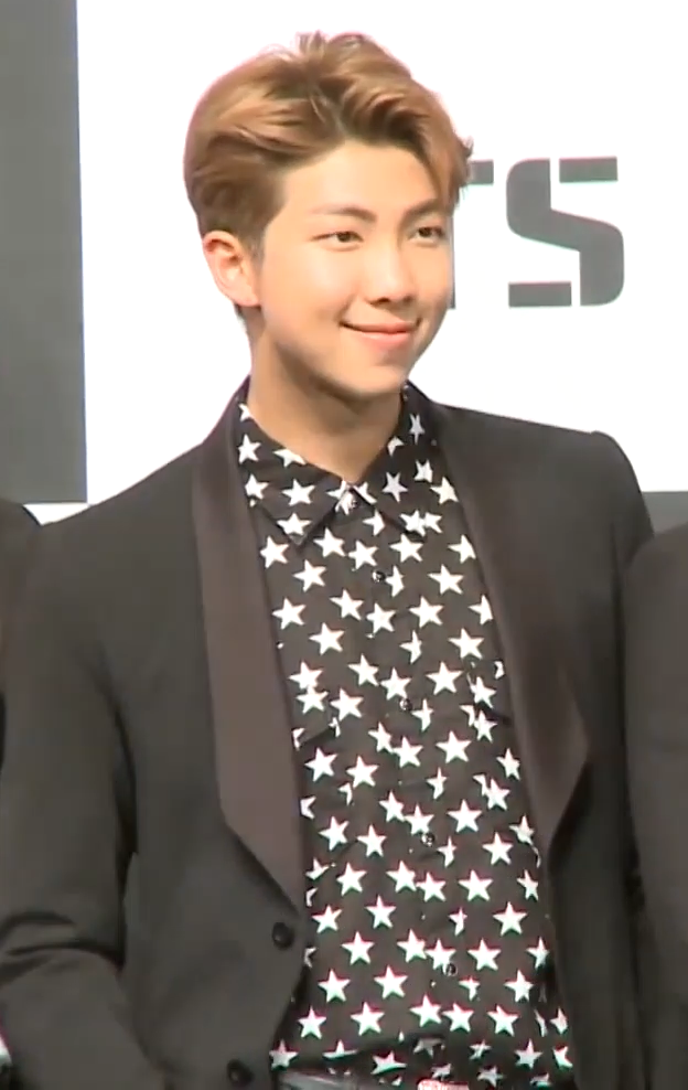 RM at a press conference for Billboard Music Awards on May 29, 2017